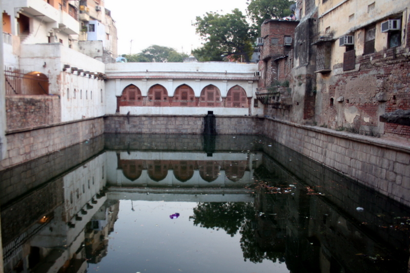 Baoli at Ghiaspur also known as Nizamudin boali Visited Nizamudin Boali on 27th Jan 2012.There was noticeable improvement .Work for improvement is still going on.I have linked old photo taken by me from same spot in 2007 .The boali has been cleaned with joint effort by Aga khan trust and ASI MCD